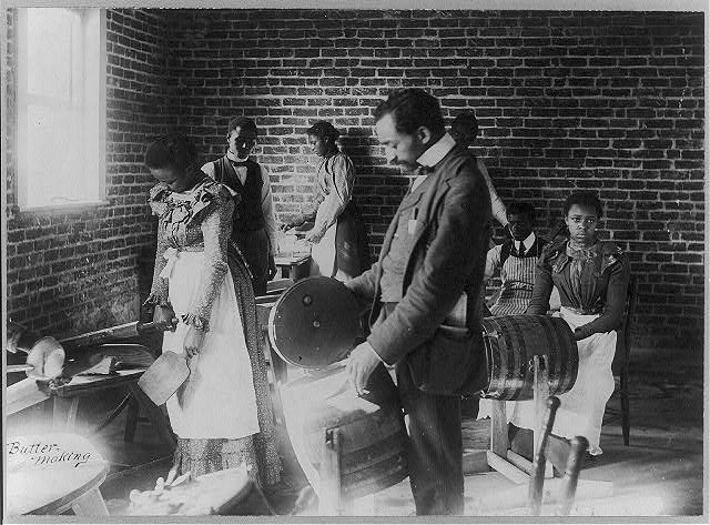 Students learning to make butter circa 1899